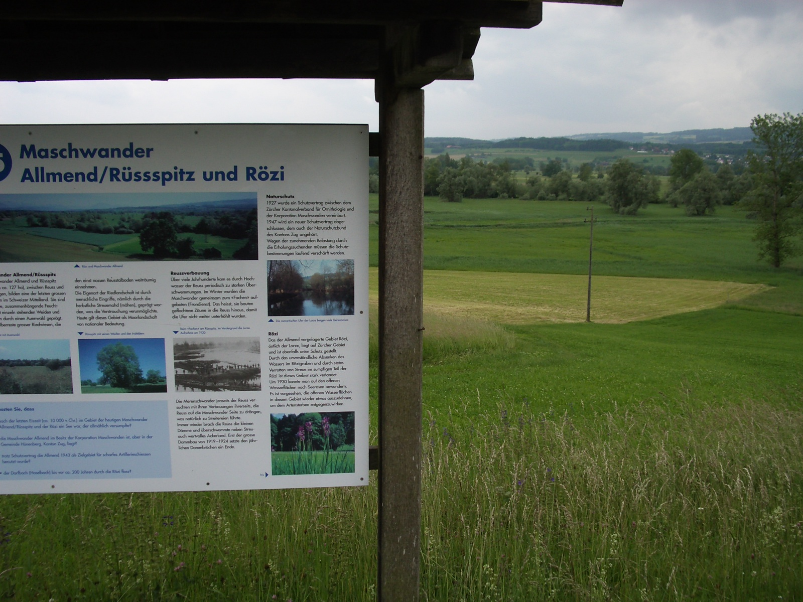 Maschwanden ZH, Switzerland